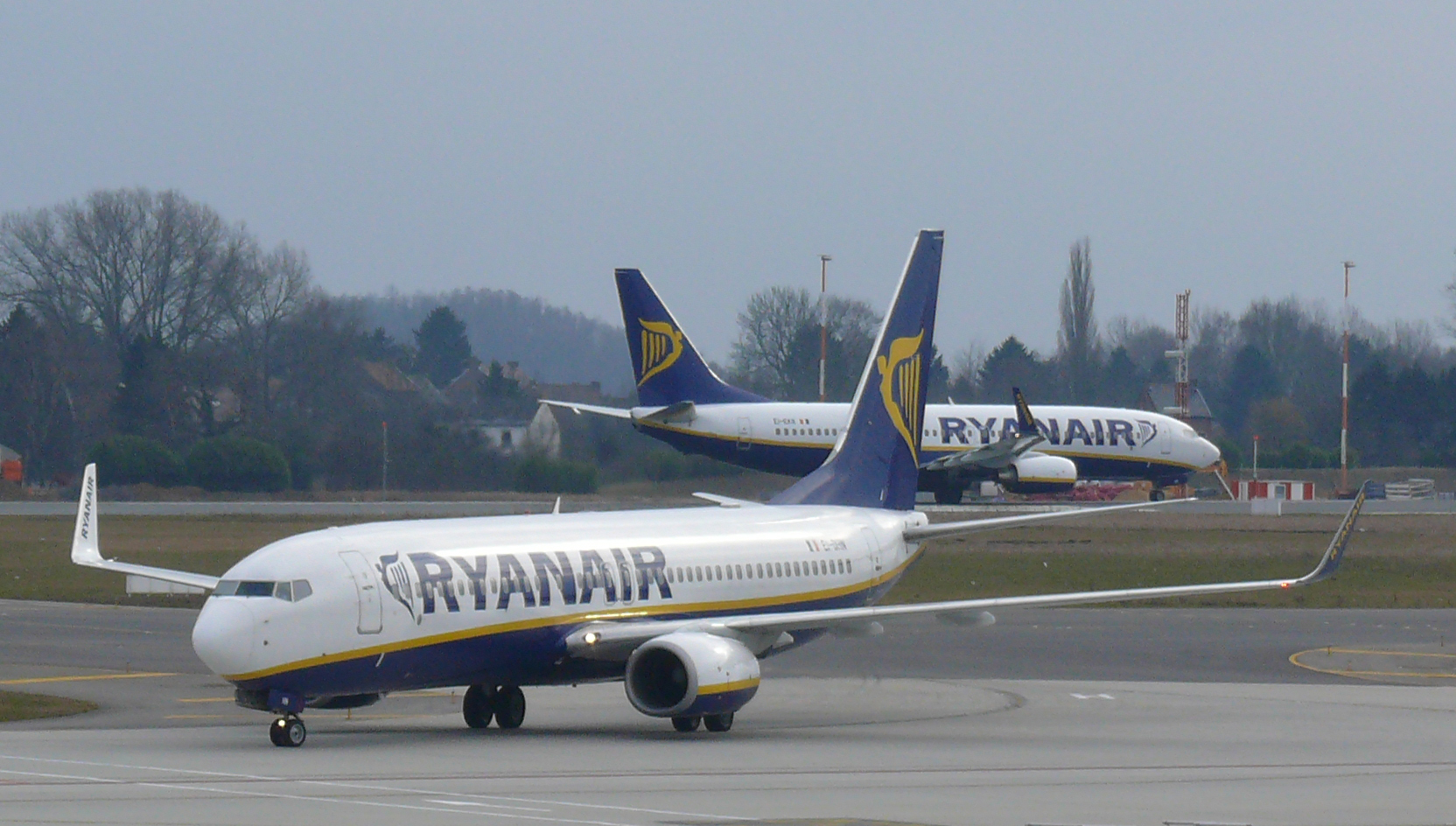 Ryanair Boeing 737-800 (Next Generation) EI-EKK (background) and Ryanair Boeing 737-800 (Next Generation)EI-DHN at Brussels South Charleroi Airport.